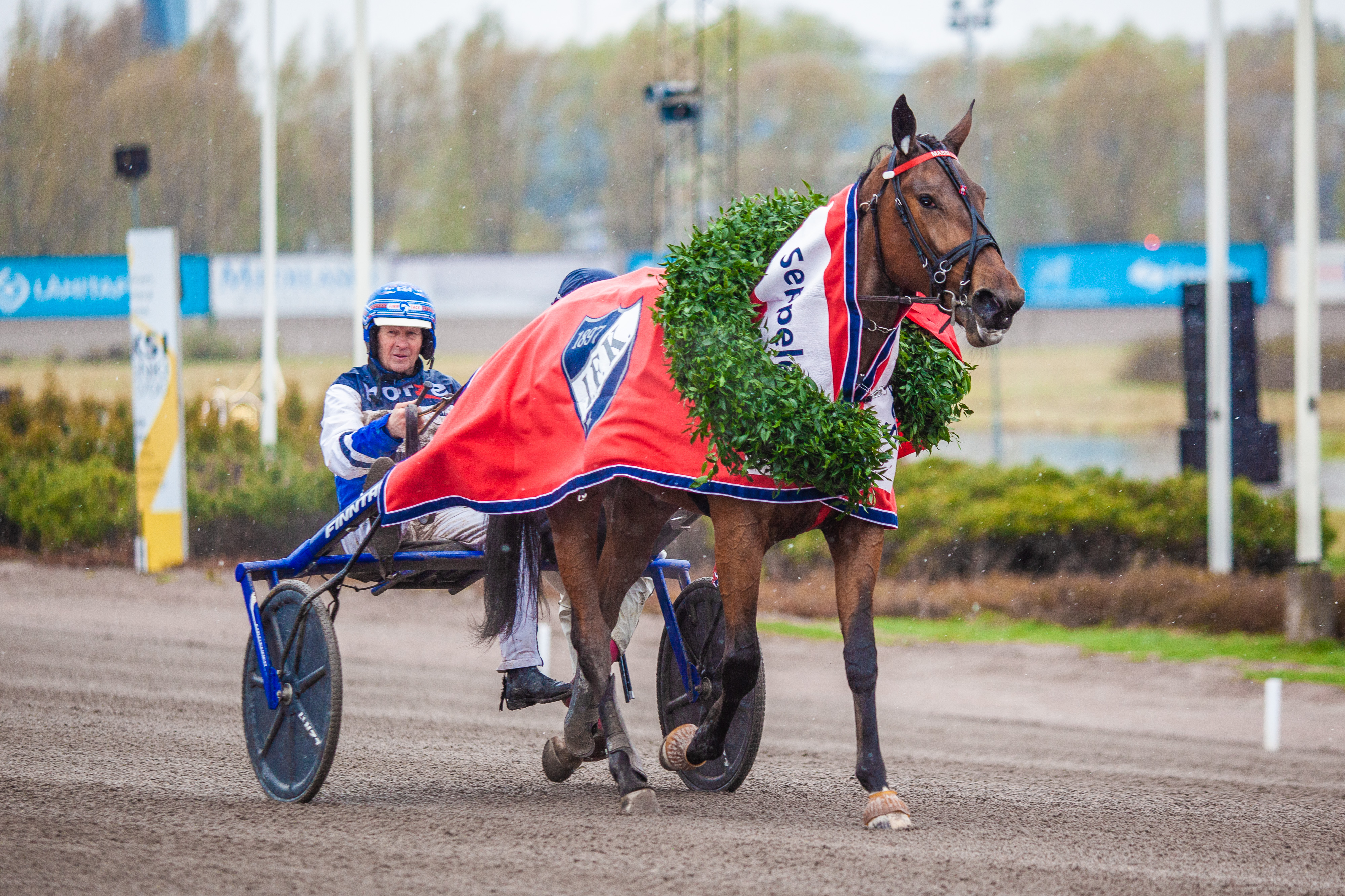 Pekka Korpi and Mascate Match at Vermo 4.5.2019